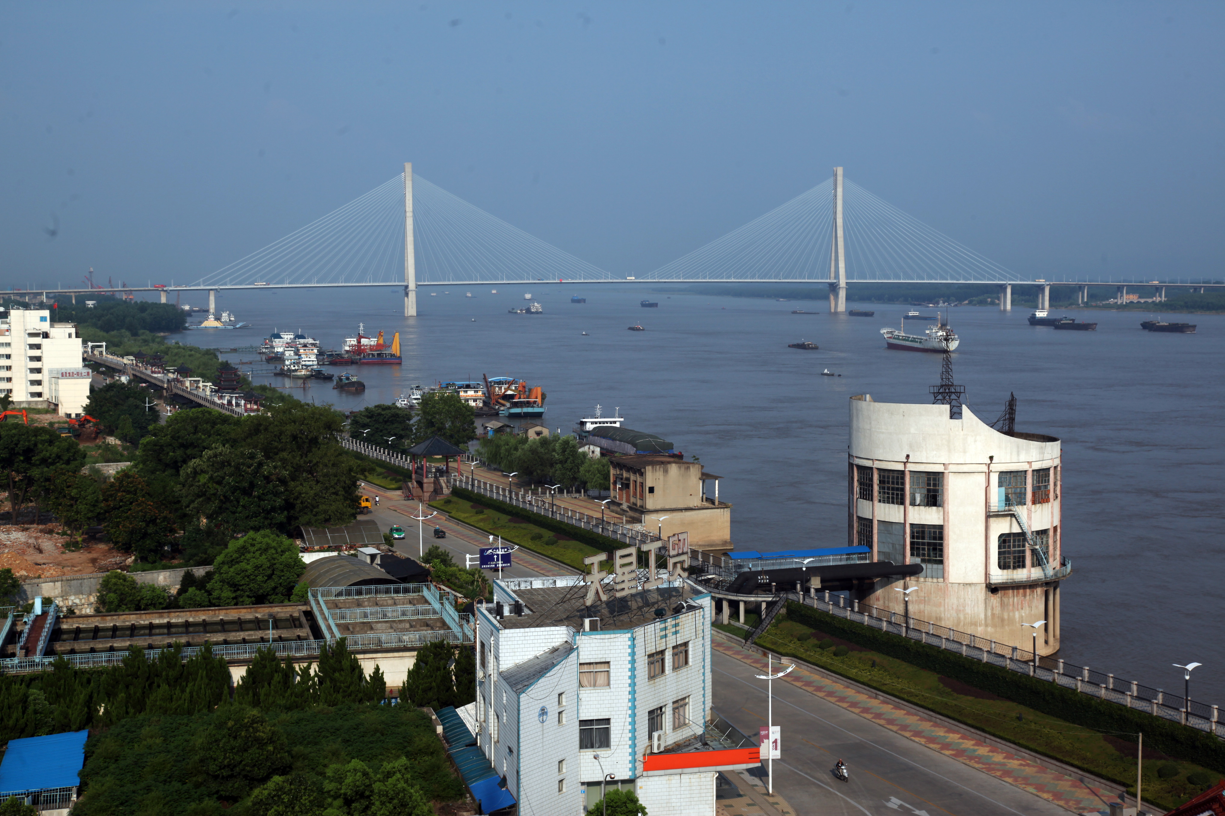 The Anqing Bridge in Anqing, China